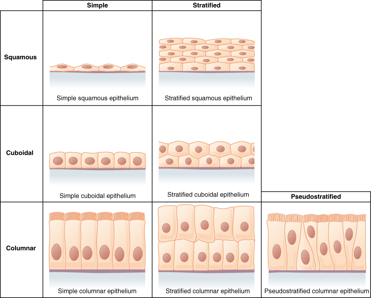 Illustration from Anatomy & Physiology, Connexions Web site. Jun 19, 2013.